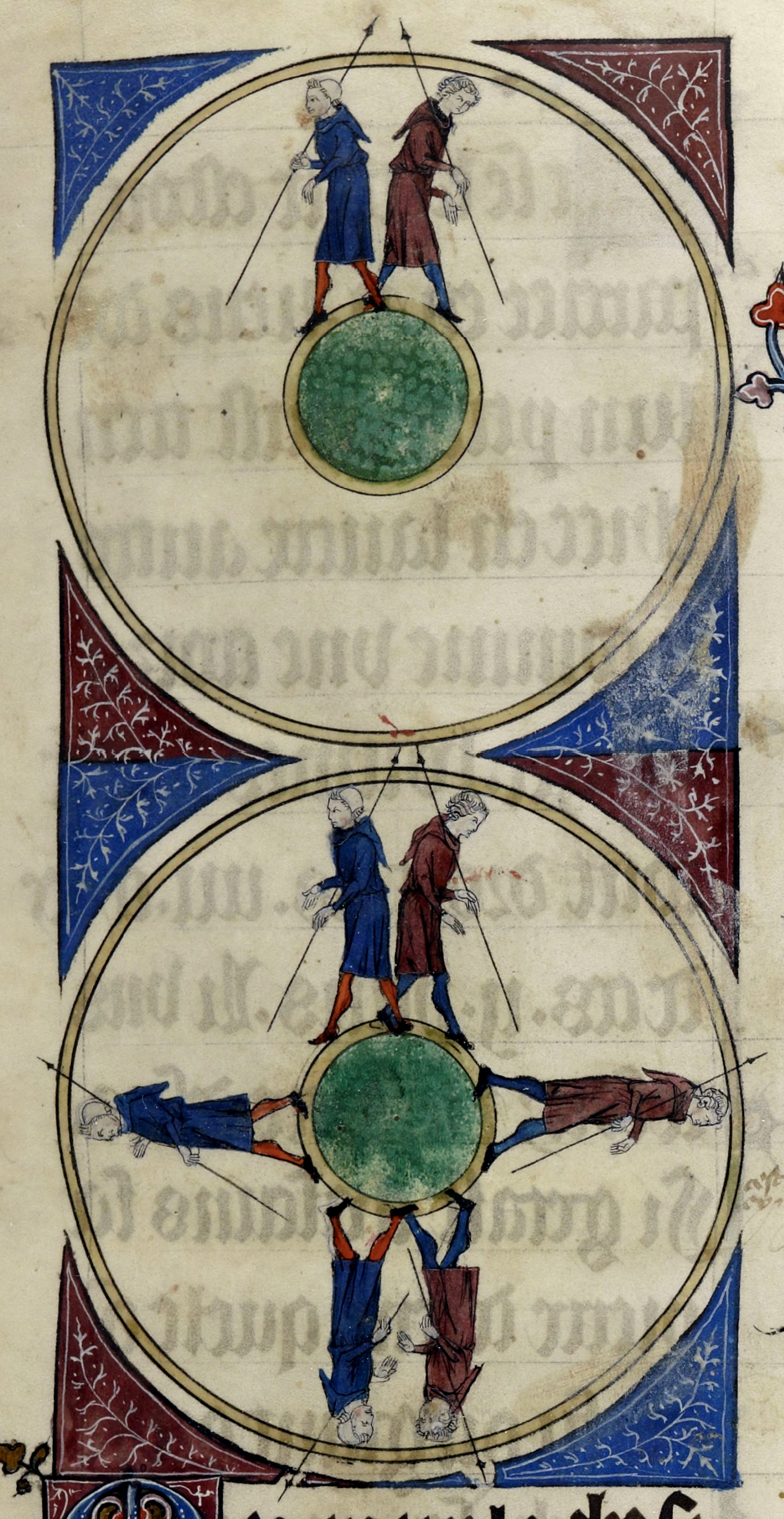 Illustration of the spherical earth in a medieval manuscript. The figure shows two men walking around the spherical earth, one going to the East and the other to the West, and meeting on the opposite side.[1] 14th century copy of a 12th century original